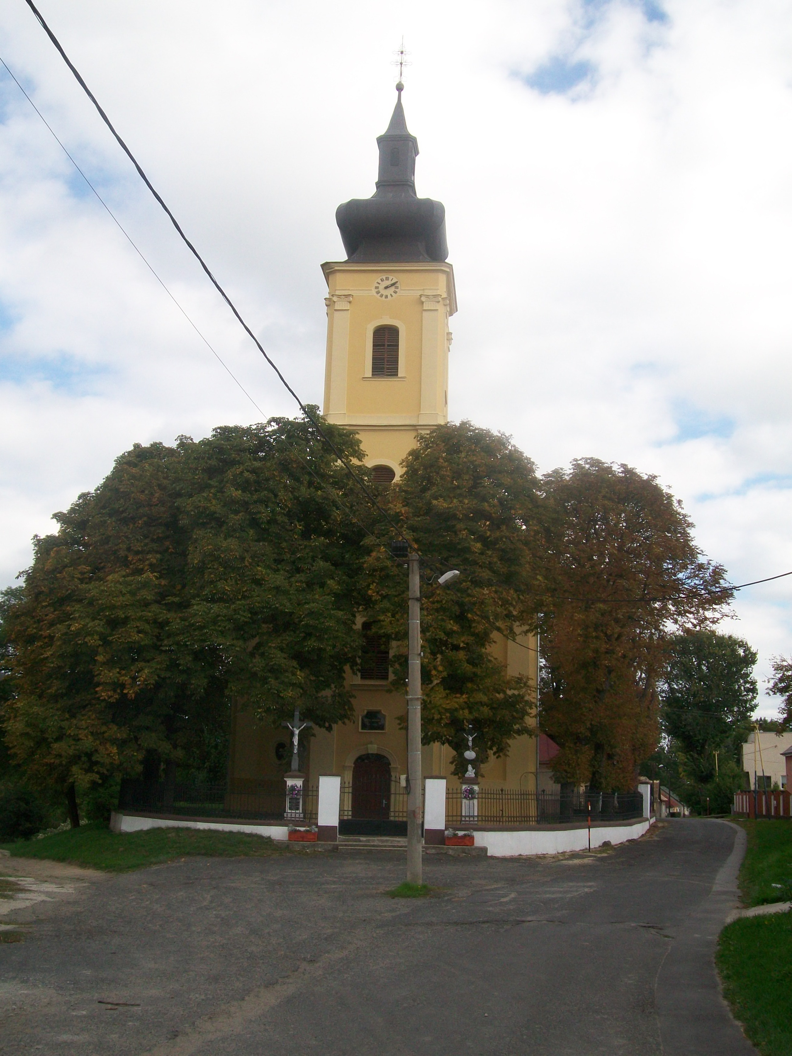 Baroque Roman Catholic church of St. Demetrius martyr. Foundations of the church were laid in 1797.